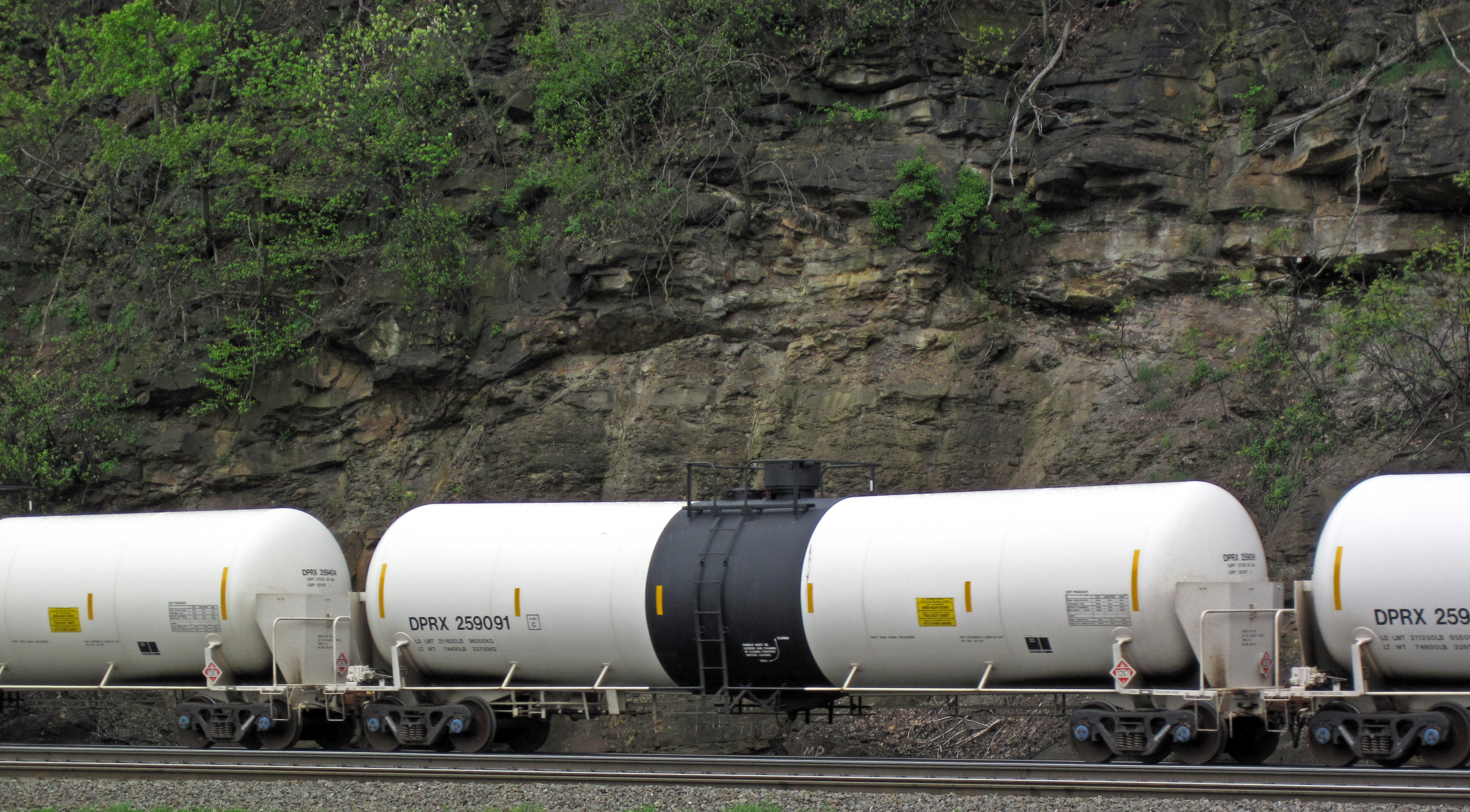 This is a westbound Norfolk Southern Railway freight train in the late morning of 10 May 2016 at Horseshoe Curve, west of Altoona, Pennsylvania, USA. It was headed by two NS engines - # 9693, a General Electric CW40-9, and # 7211, a General Motors Electro-Motive Division SD80MAC. This tank car is Deep Rock Refining Company # 259091, marked DPRX. It was built in the 2010s and is used to transport petroleum (crude oil).